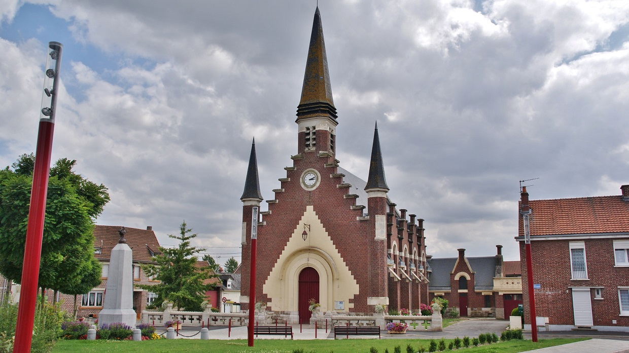 église St Christophe